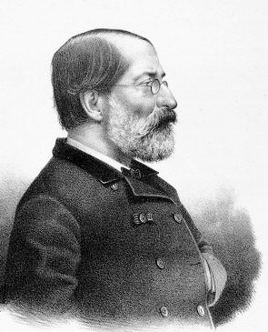 Italian flutist and composer Emanuele Krakamp (1813-1883).